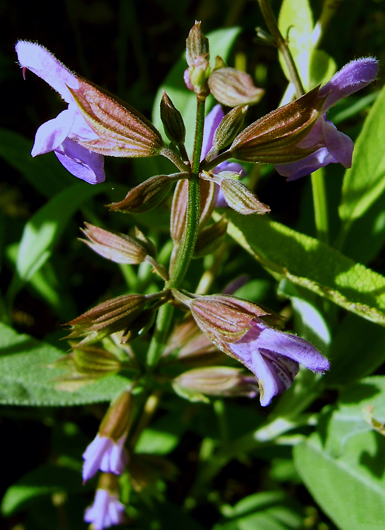 Sage